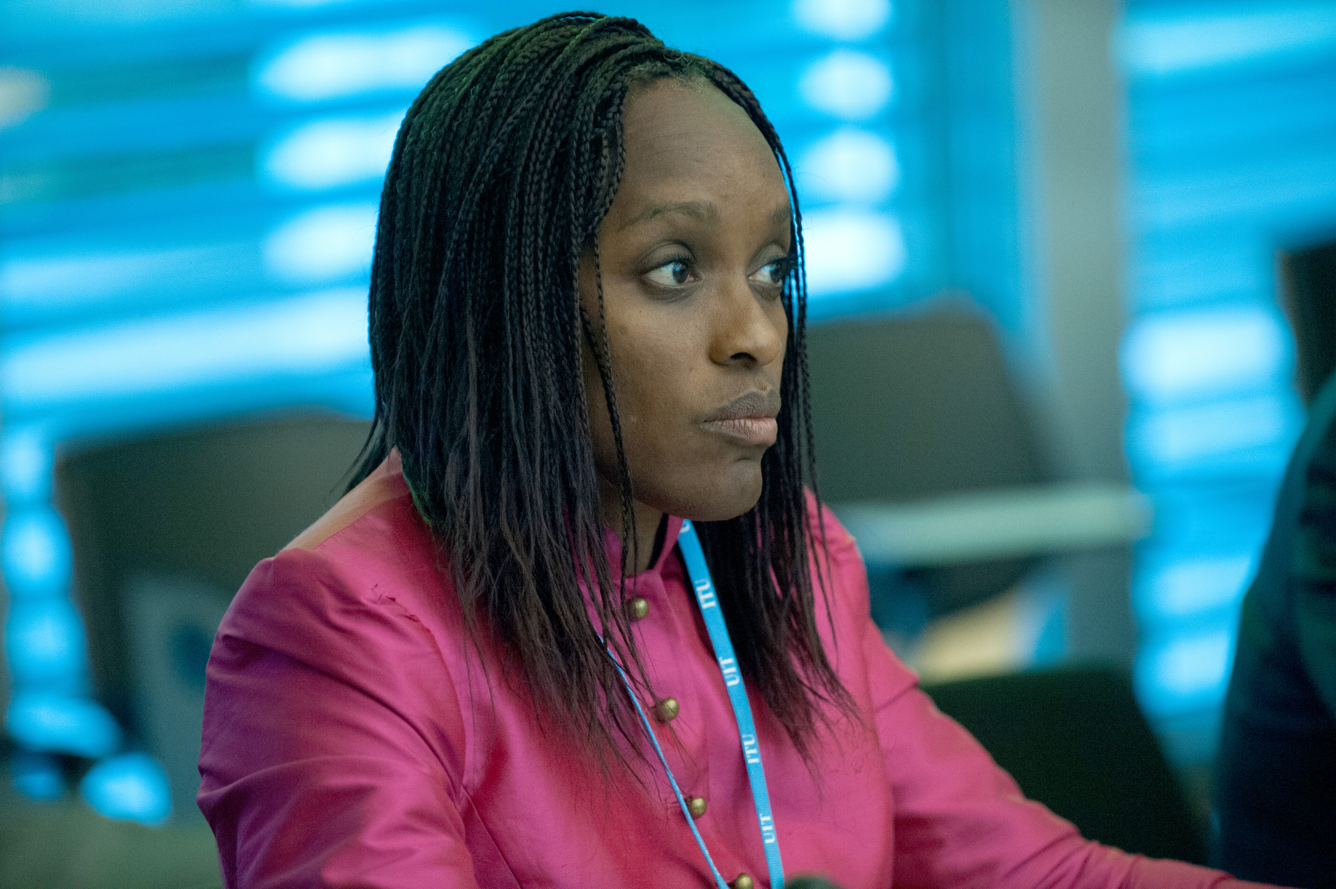 H.E. Mrs Omobola Johnson, Minister, Federal Ministry of Communication Technology, Nigeria WSIS+10: Future of the Information Society and Challenges to Address beyond 2015 14 May 2013 ITU/ J.M. Planche